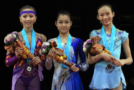 The ladie's podium at the 2009-20100 ISU Junior Grand Prix Final. From left: Polina Shelepen (2nd), Kanako Murakami (1st), Christina Gao (3rd).